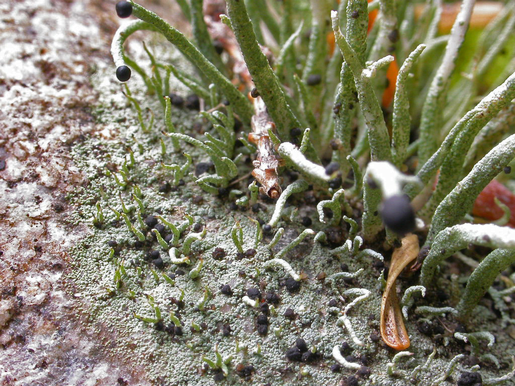 The "devil's matchstick", lichen species Pilophorus acicularis (Ach.) Th. Fr. Specimen photographed in South End of Chiliwack Lake BC Canada.